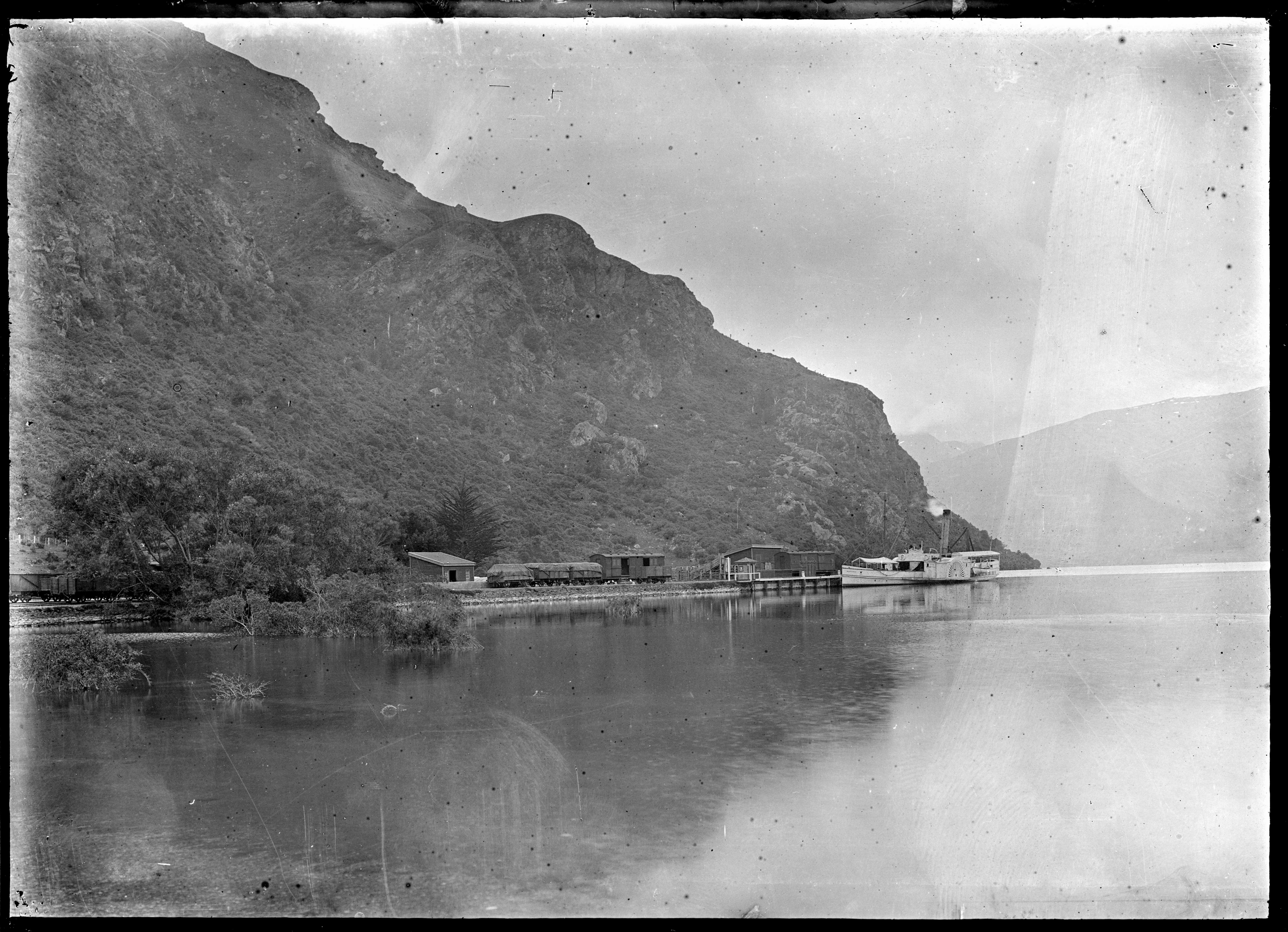 View of a paddle steamer at Kingston Wharf on Lake Wakatipu. Photograph taken by Albert Percy Godber in 1926.